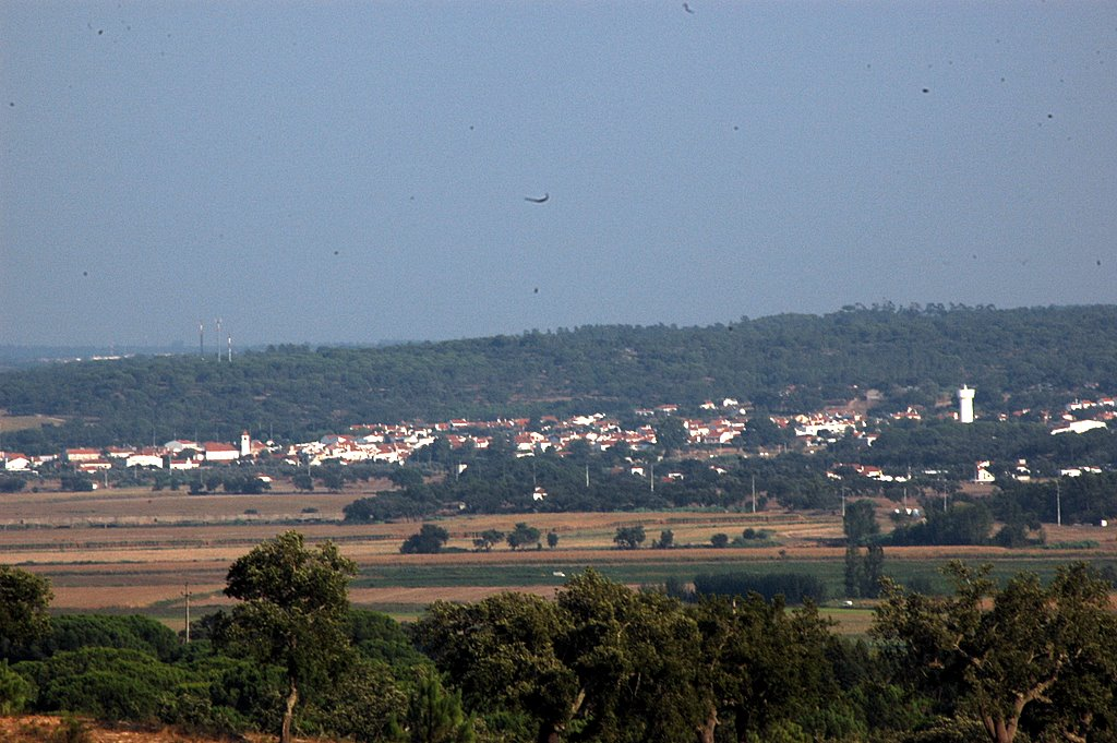 Couço in Coruche, Portugal